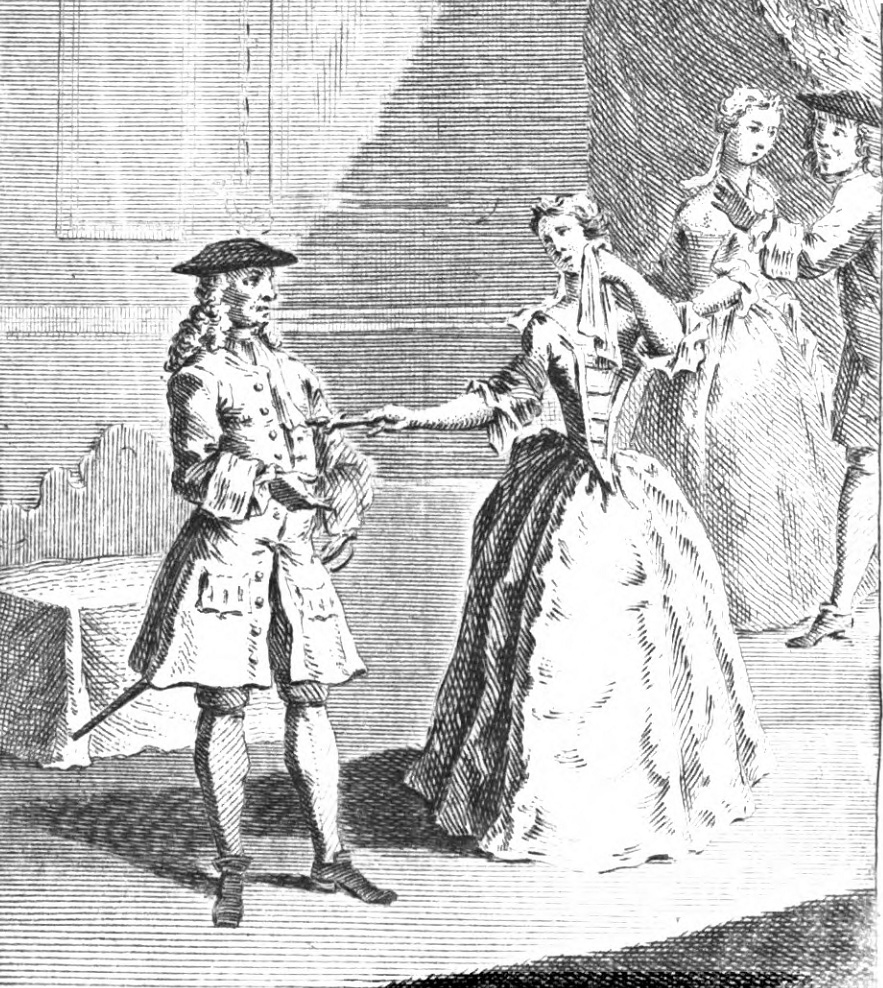 Acte V scene 17 of The Double Dealer by Congreve, scanned from the 1735 edition. From left to right : Maskwell, lady Touchwood weeping, giving back the dagger to Maskwell, and, hidden, Cynthia and lord Touchwood, listening.